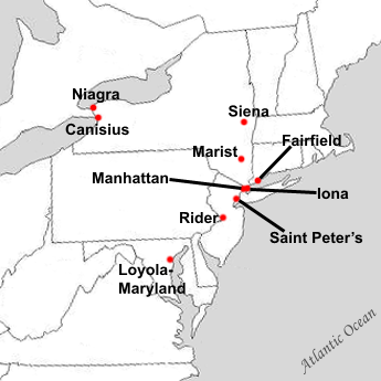 Locations of Metro Atlantic Athletic Conference full member institutions. Personal creation in Photoshop; All rights released to the public to do whatever they want with it.